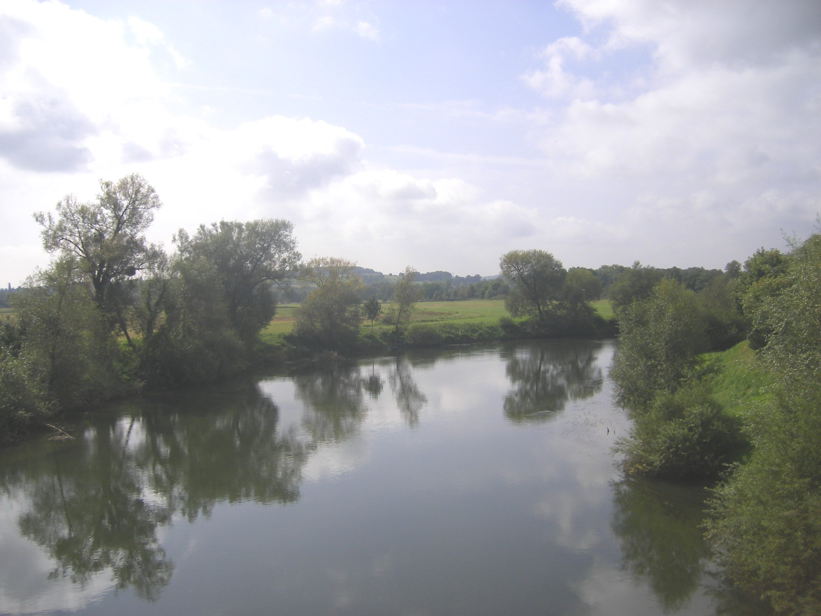 Warcq - Meuse River